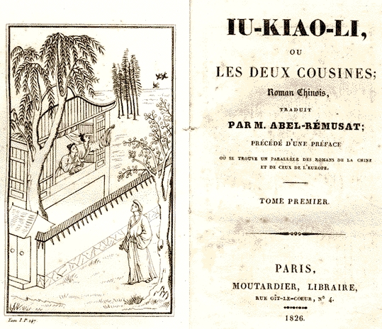 Frontispiece and title page for "Iu-Kiao-Li: Les Deux Cousines", said to be the first Chinese novel translated into a Western language.